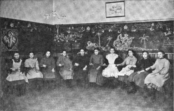 A catechism class at St. John's Institute for Deaf Mutes in 1920.